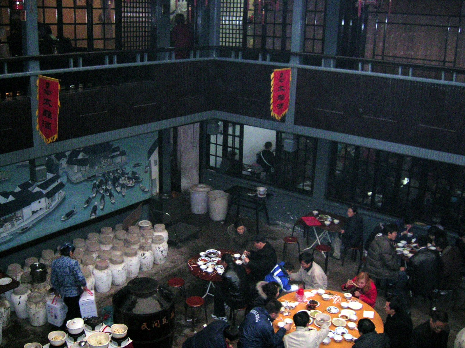 Xian heng Hotel, Xian heng tavern (鹹亨酒店/咸亨酒店) in Shaoxing China